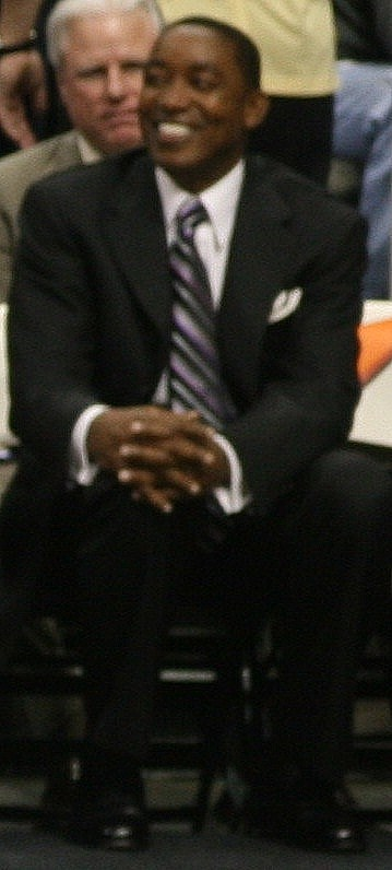 Jason Kidd squats on the court